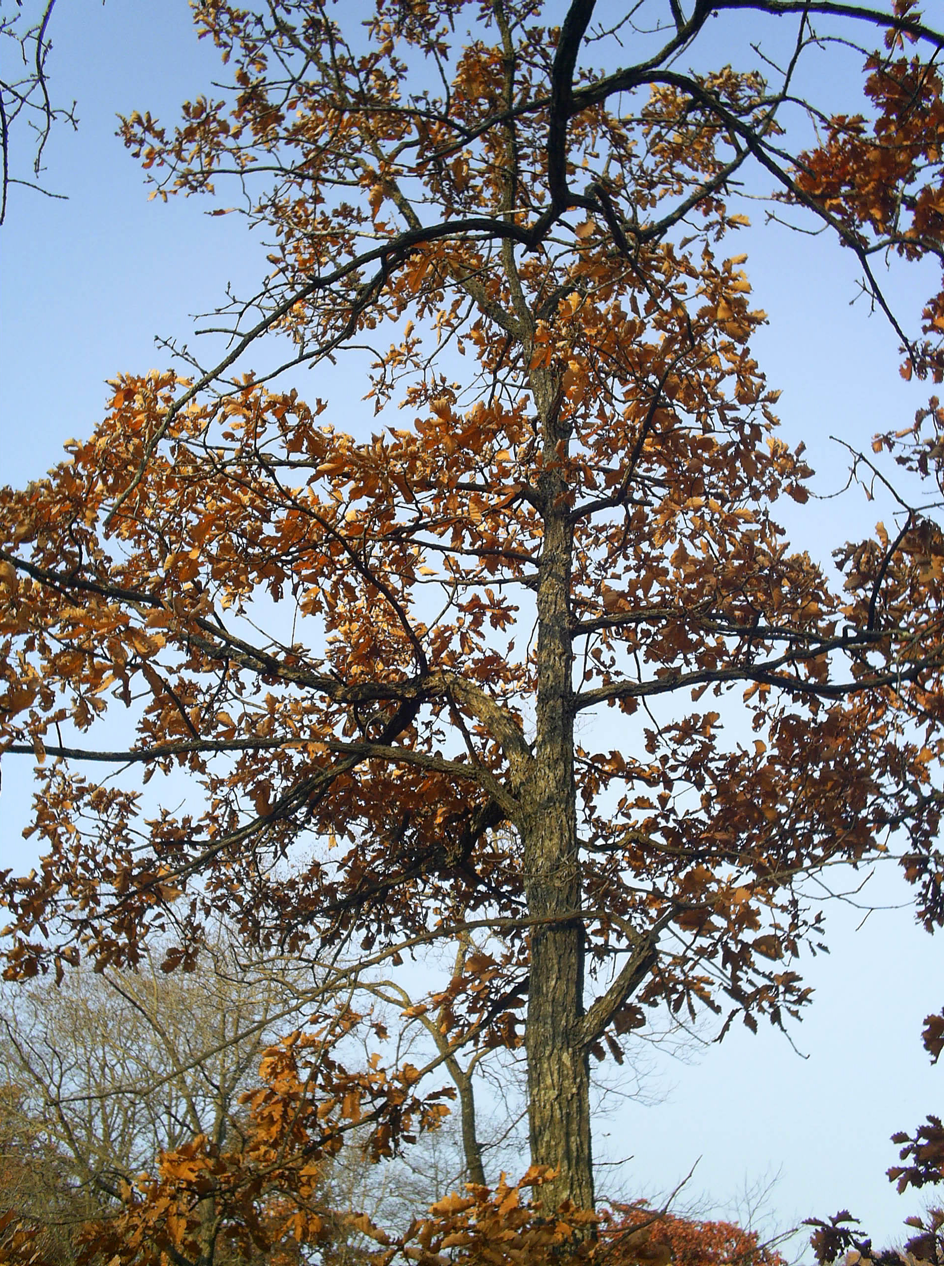 Mongolian Oak Quercus mongolica in October 2007, Sikhote-Alin, Russia